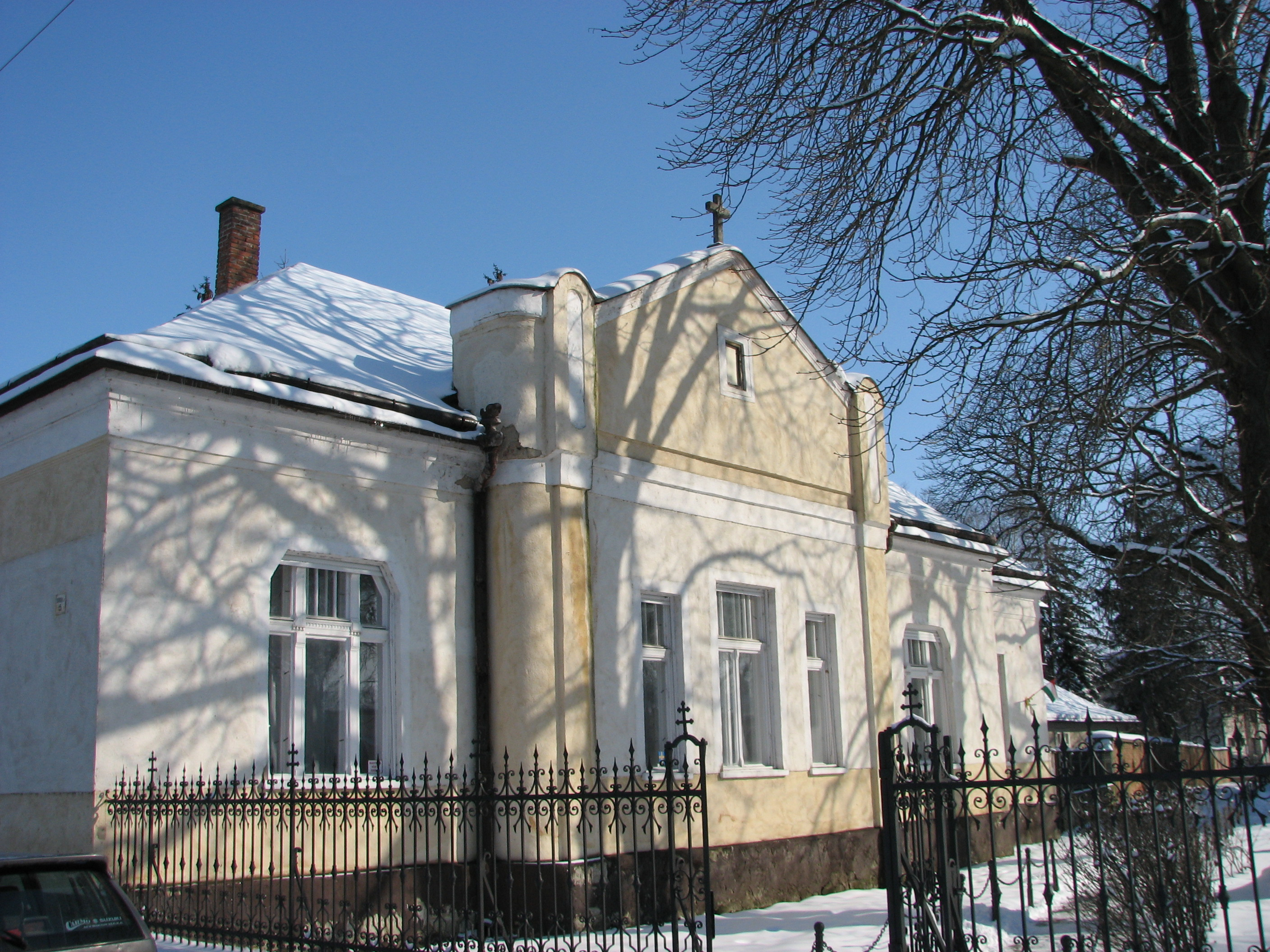 The office and home building of the parish priest of the Greek Catholic Cathedral of Hajdúdorog, Hungary. The parish priest in the Eastern Catholic rites is often related to as parochus and the word parochia refers either to the building or to the territorial division of the diocese.